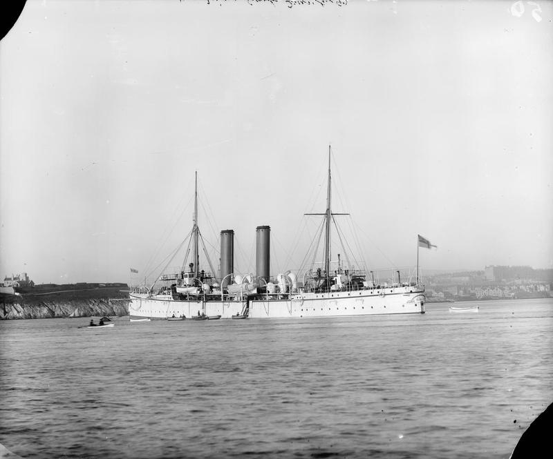 Long (messrs) Collection H. M. S. Sirius.